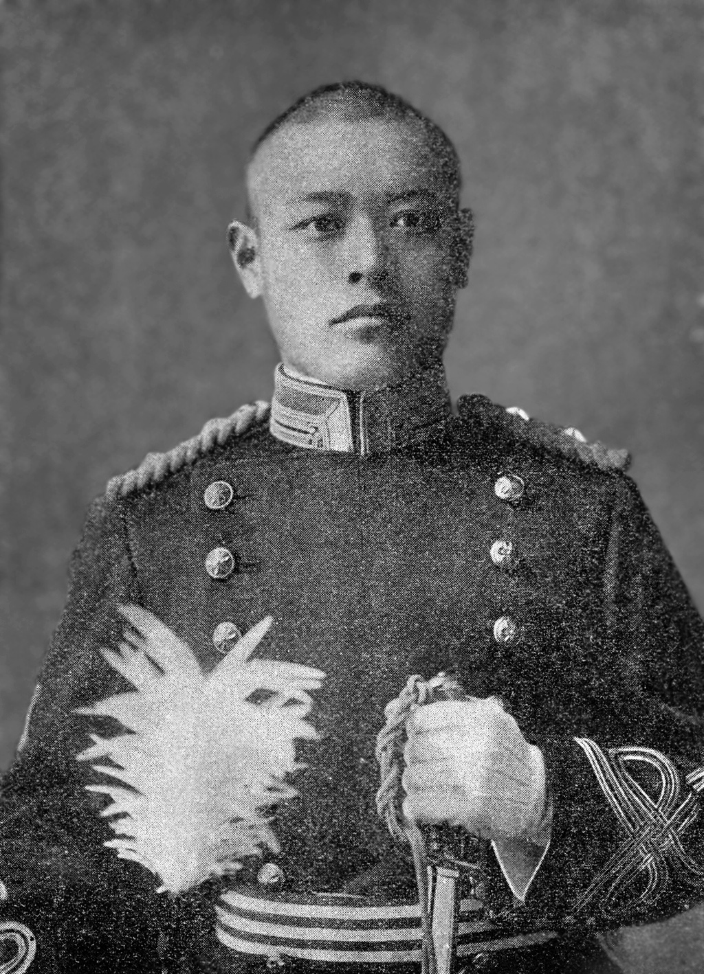 Portrait of Tokuda Kin'ichi (徳田金一, 1885 – 1913)